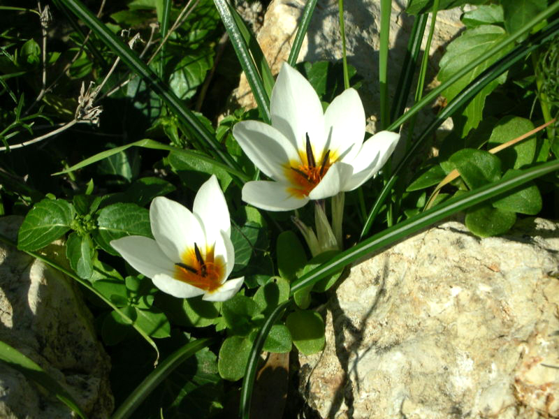 Crocus Hyemalis in mount Tavor, Israel.